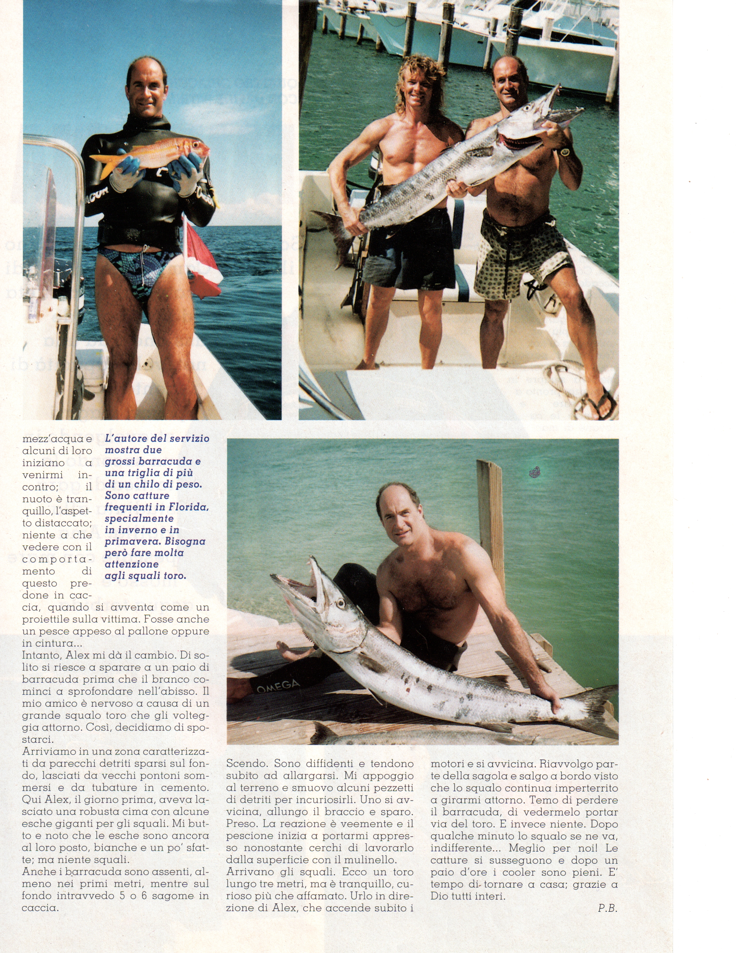 spearfishing for barracuda